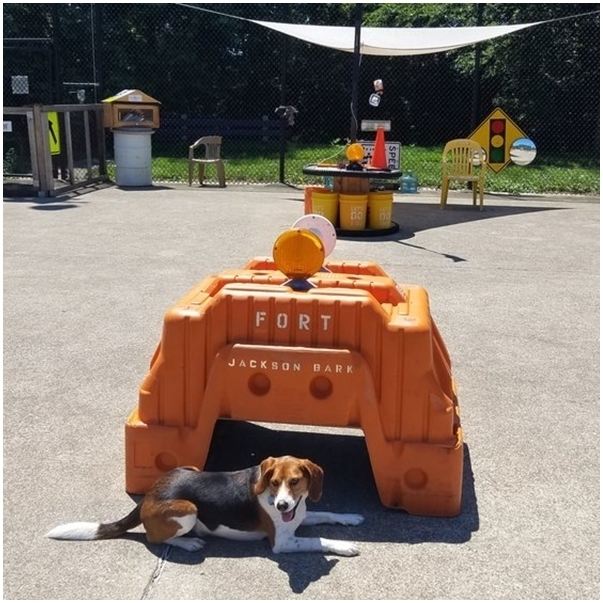 "Fort Jackson Bark" is not only a place to get some shade but also to play 'hide and seek" and capture a photo-op